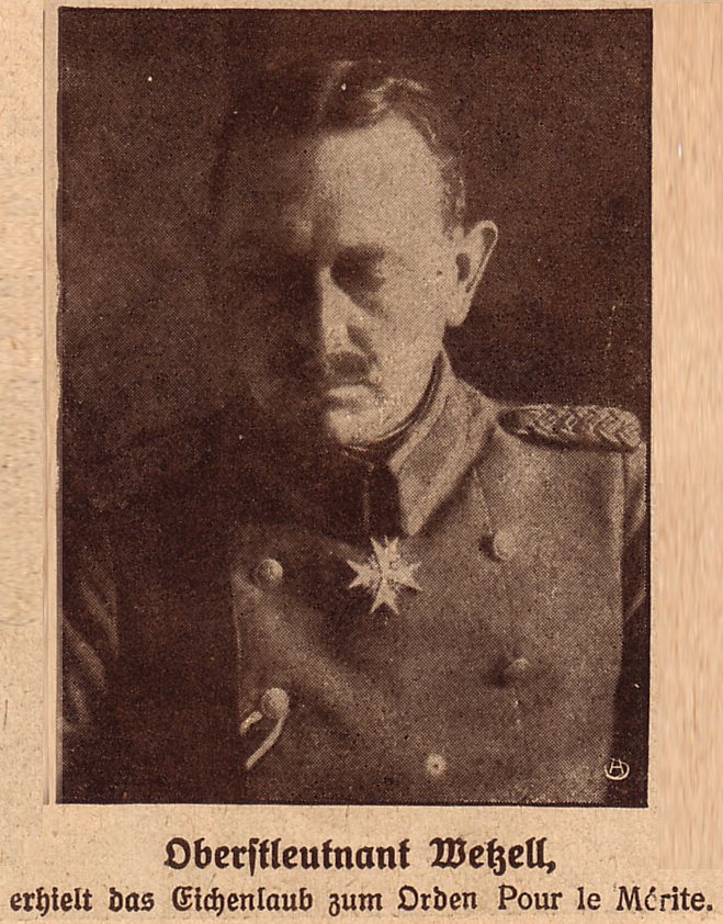 German Lieutenant-Colonel Georg Wetzell (WW1)